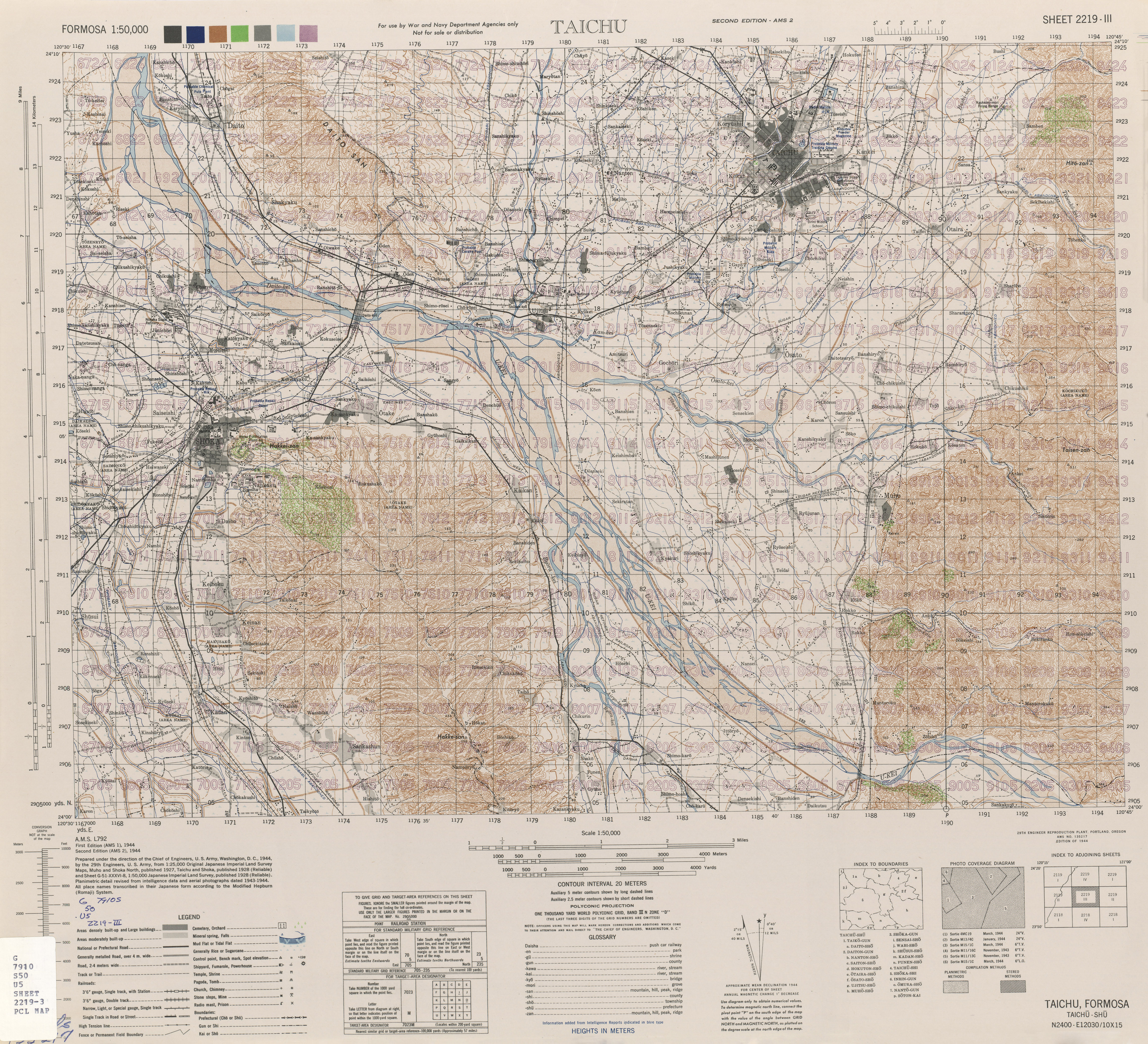 Map from Formosa (Taiwan) 1:50,000 AMS Series L792